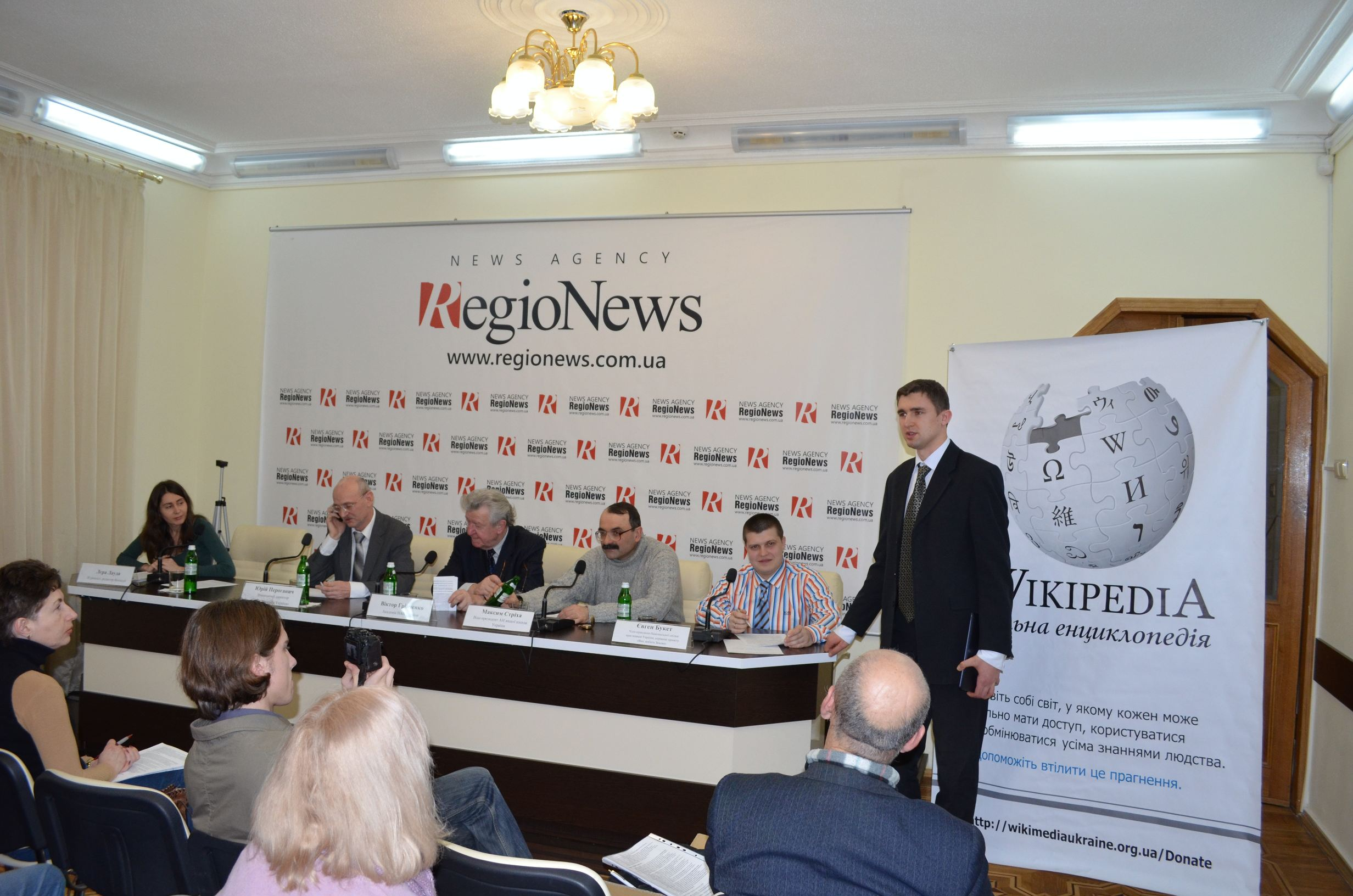 This photograph was taken with a camera of Wikimedia Ukraine